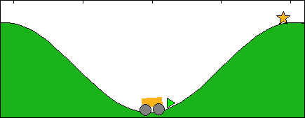 Diagram of the mountain car problem.